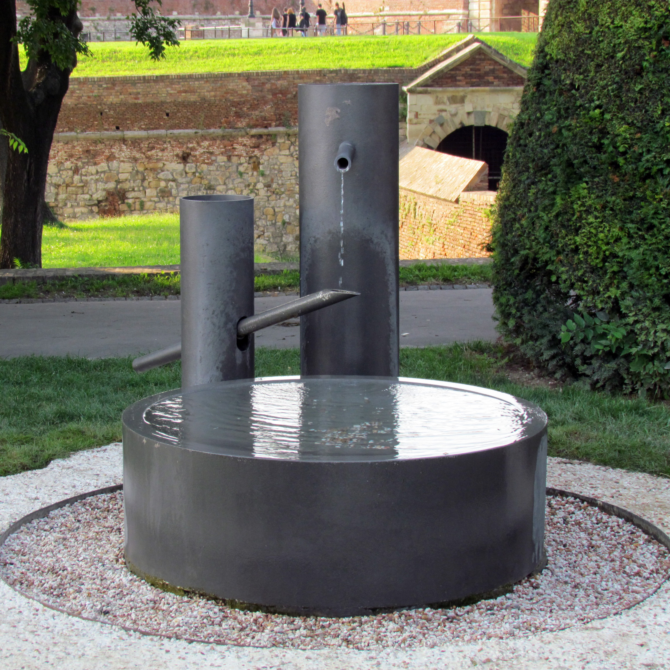 Japanese fountein in Kalemegdan park, Belgrade, shishi odoshi stylized